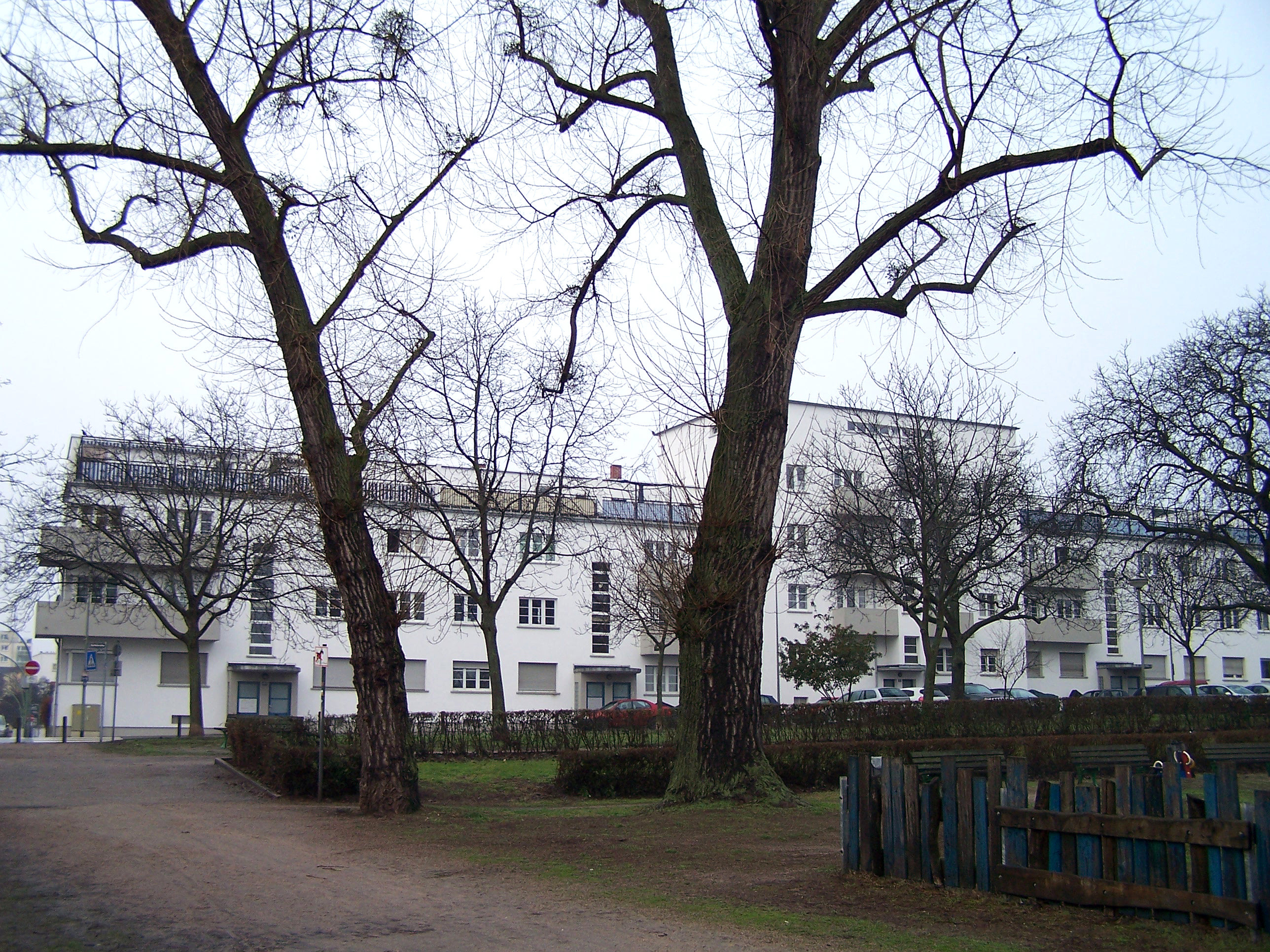 Houses of the Bornheimer Hang settlement, seen from the Bornheimer Hang in Frankfurt am Main-Bornheim, in December 2009